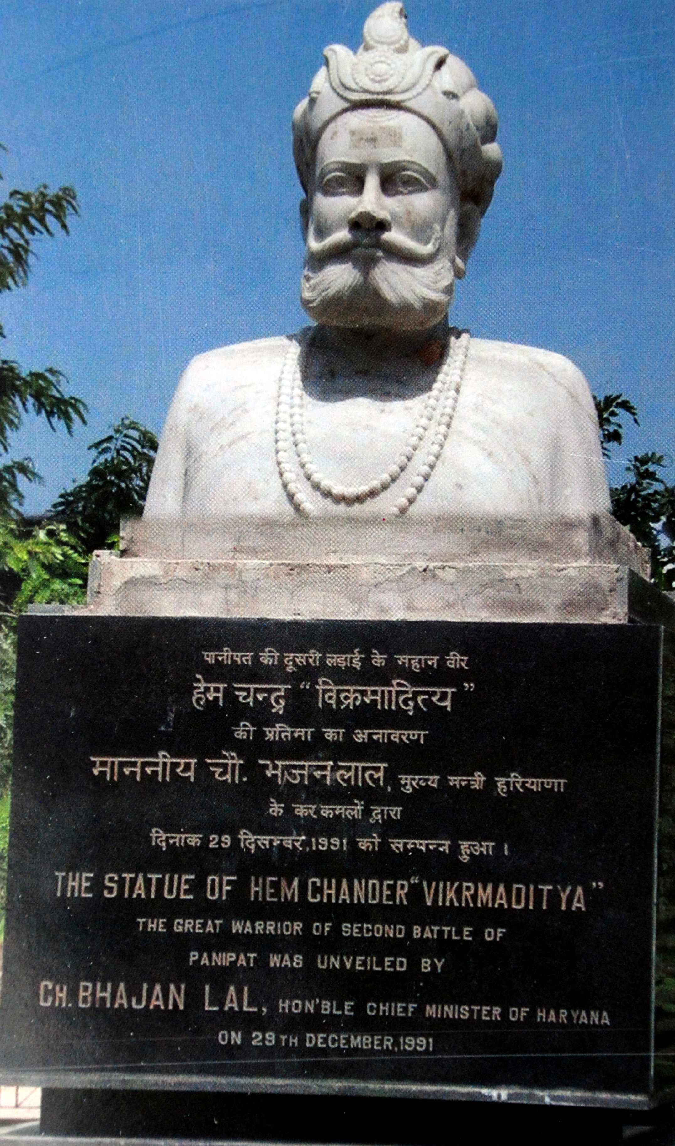 This is the picture of a statue of Hem Chandra Vikramaditya at Panipat